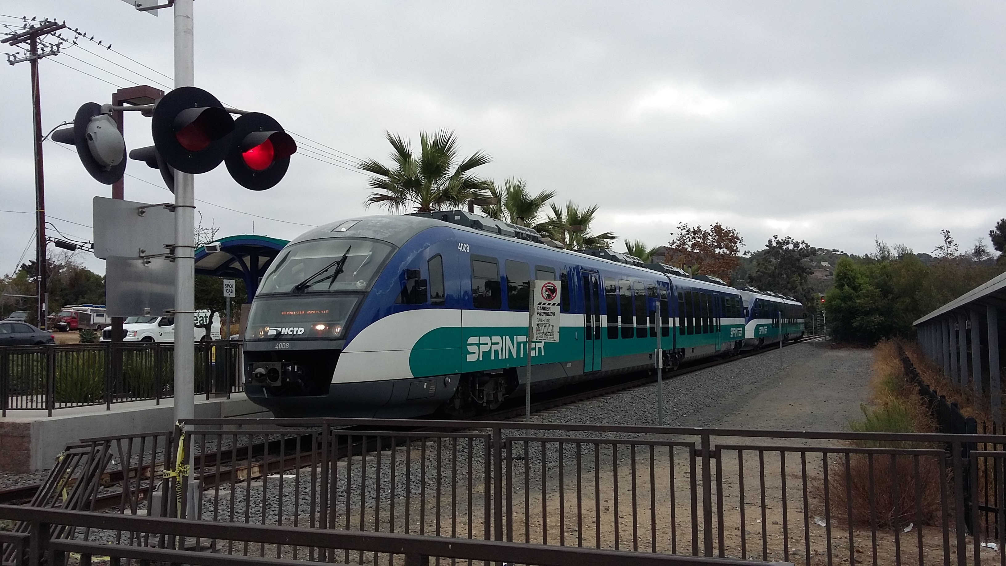 Sprinter train at Buena Creek station